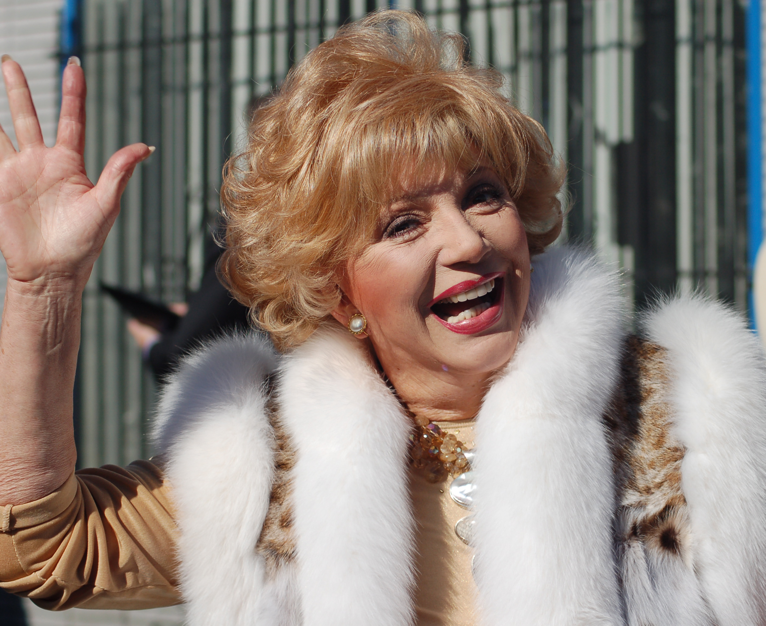 Ruta Lee at a ceremony for Leslie Caron to receive a star on the Hollywood Walk of Fame.